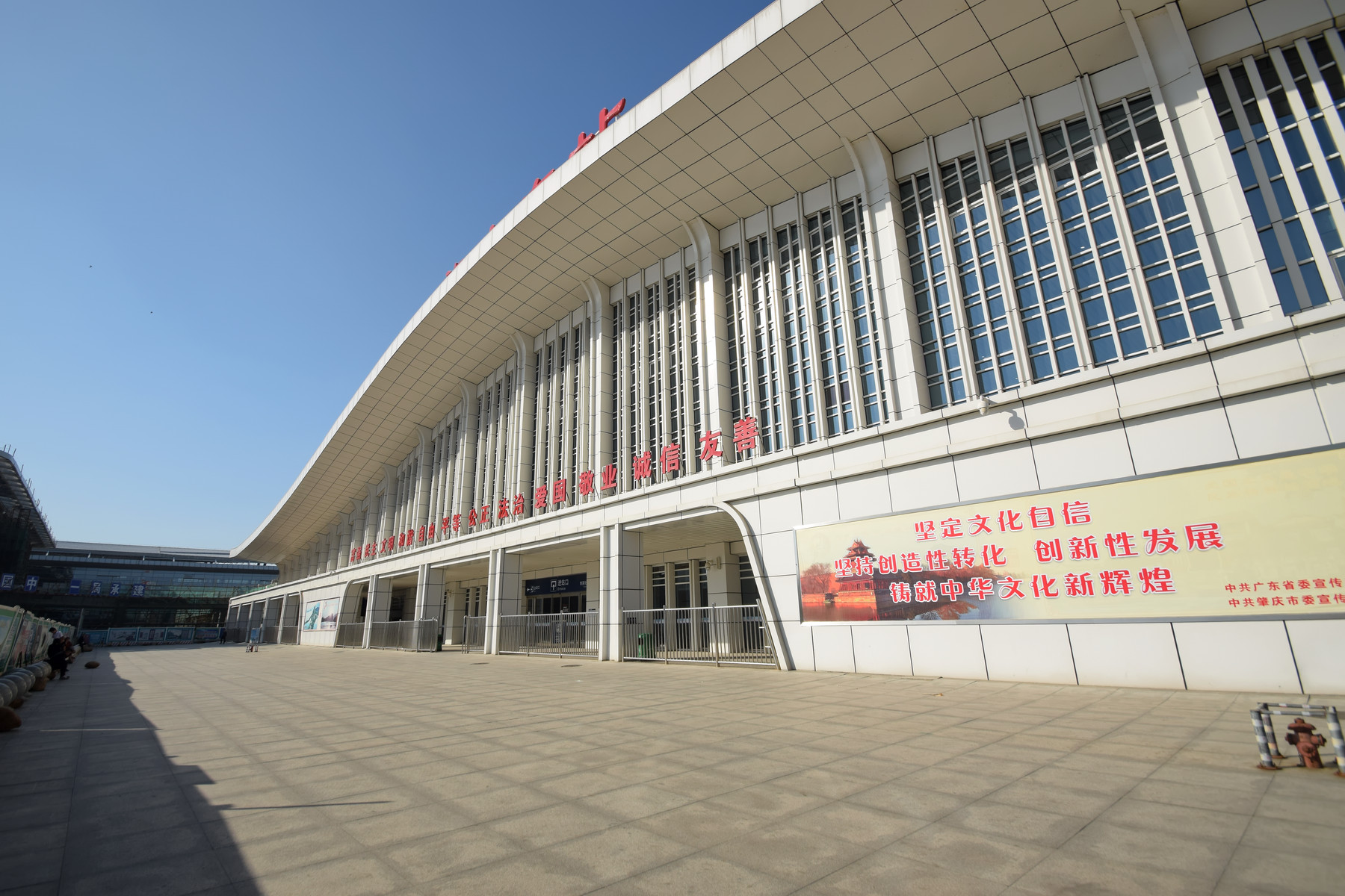 Station building of Zhaoqing Dong (East) Railway Station